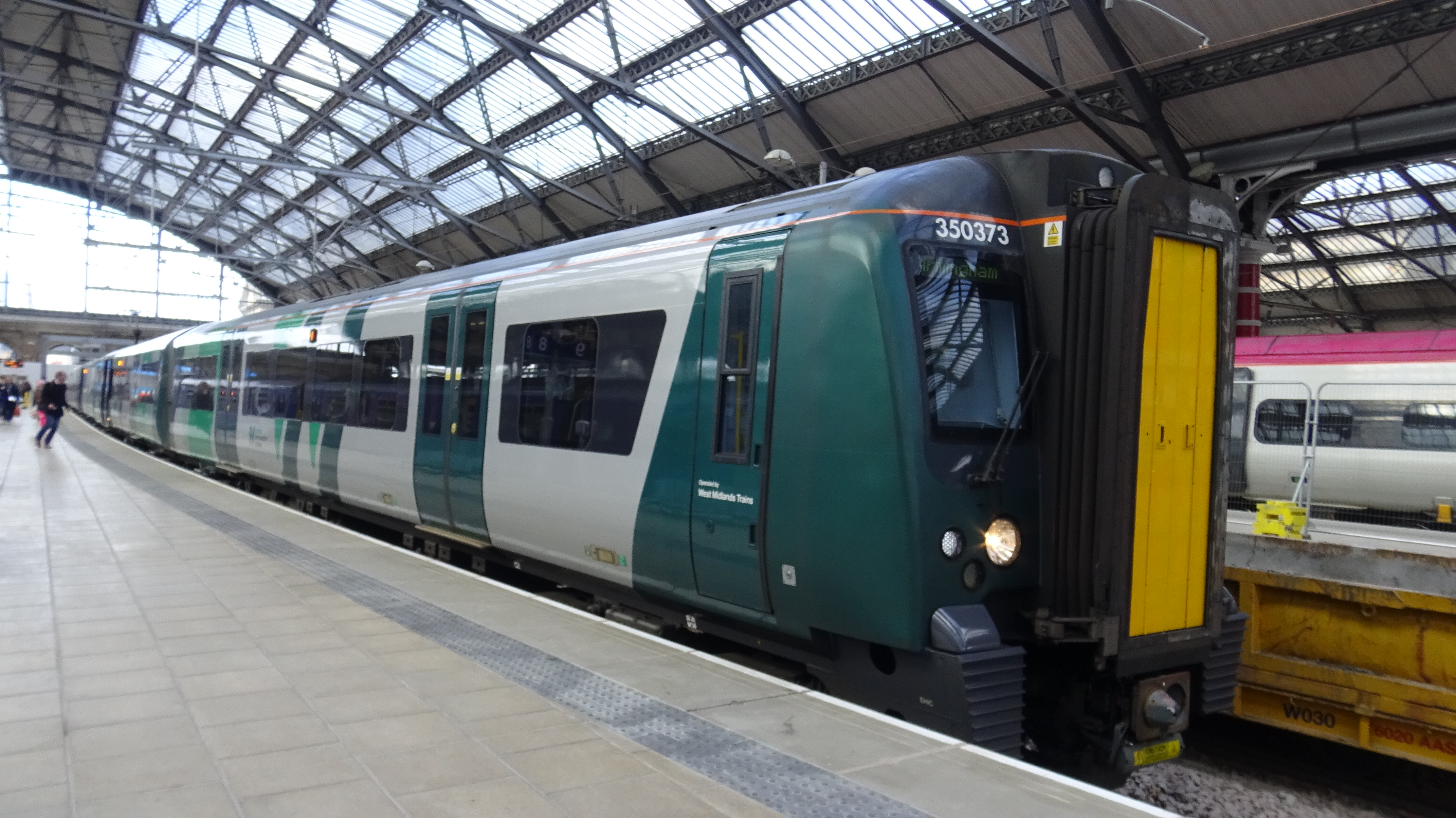 350373 is seen at Liverpool Lime Street on 17th February 2018 in full LNWR livery.